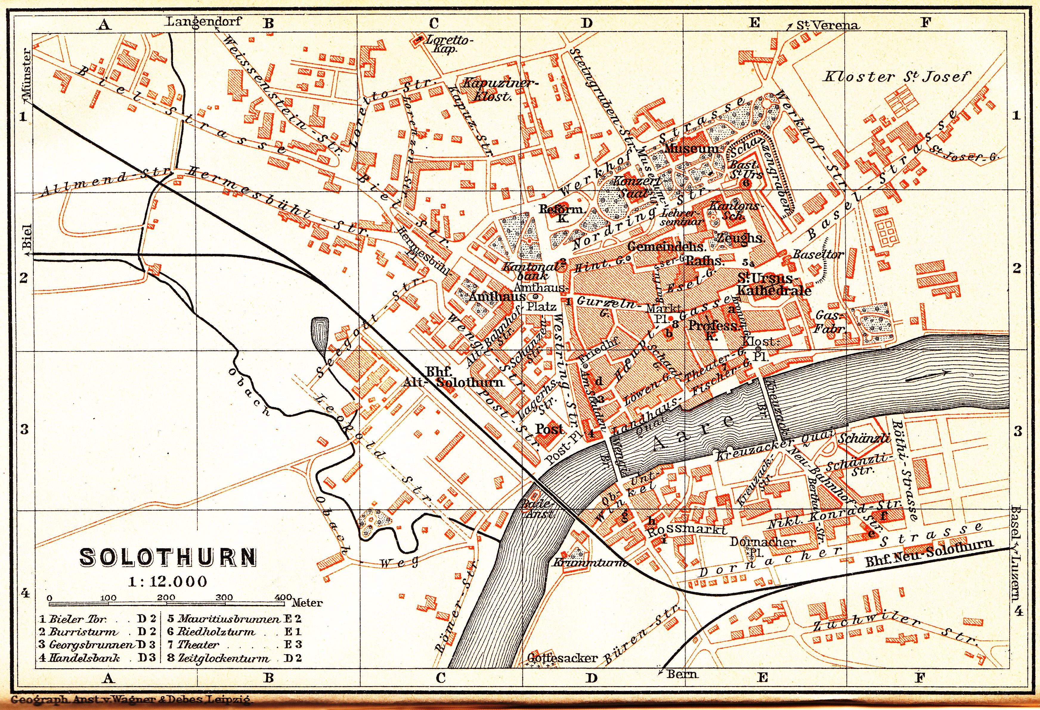 Map of Solothurn, probably around 1902 to 1905